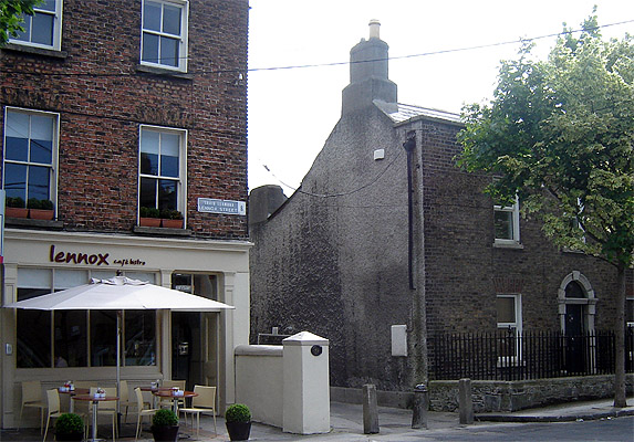 Photograph taken by me of a house in Lennox Street, Dublin. Scanned in by me.